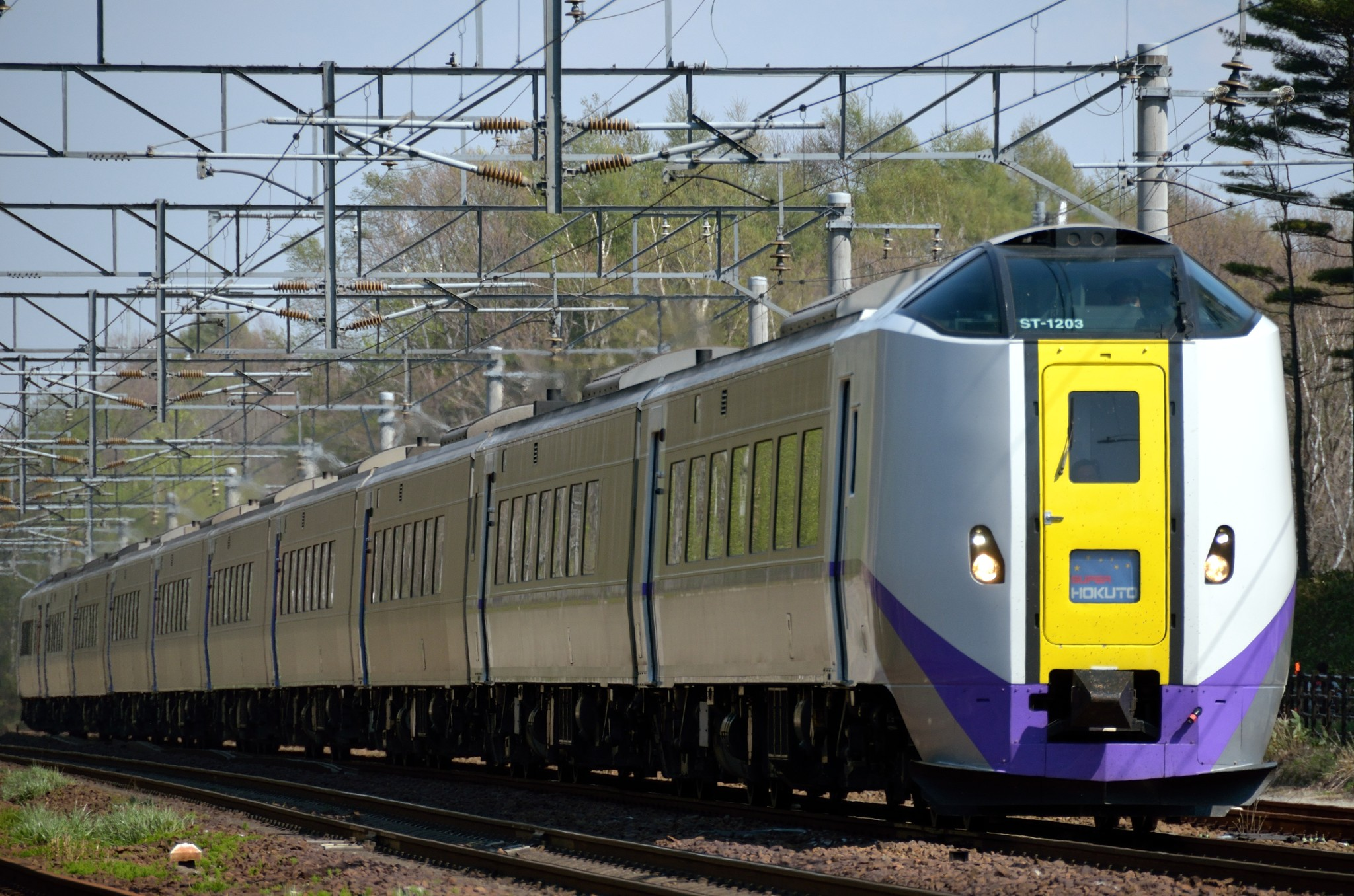 JR Hokkaido KiHa 261-1000 series DMU set ST1203 on the Super Hokuto 9 service seen near Nishinosato